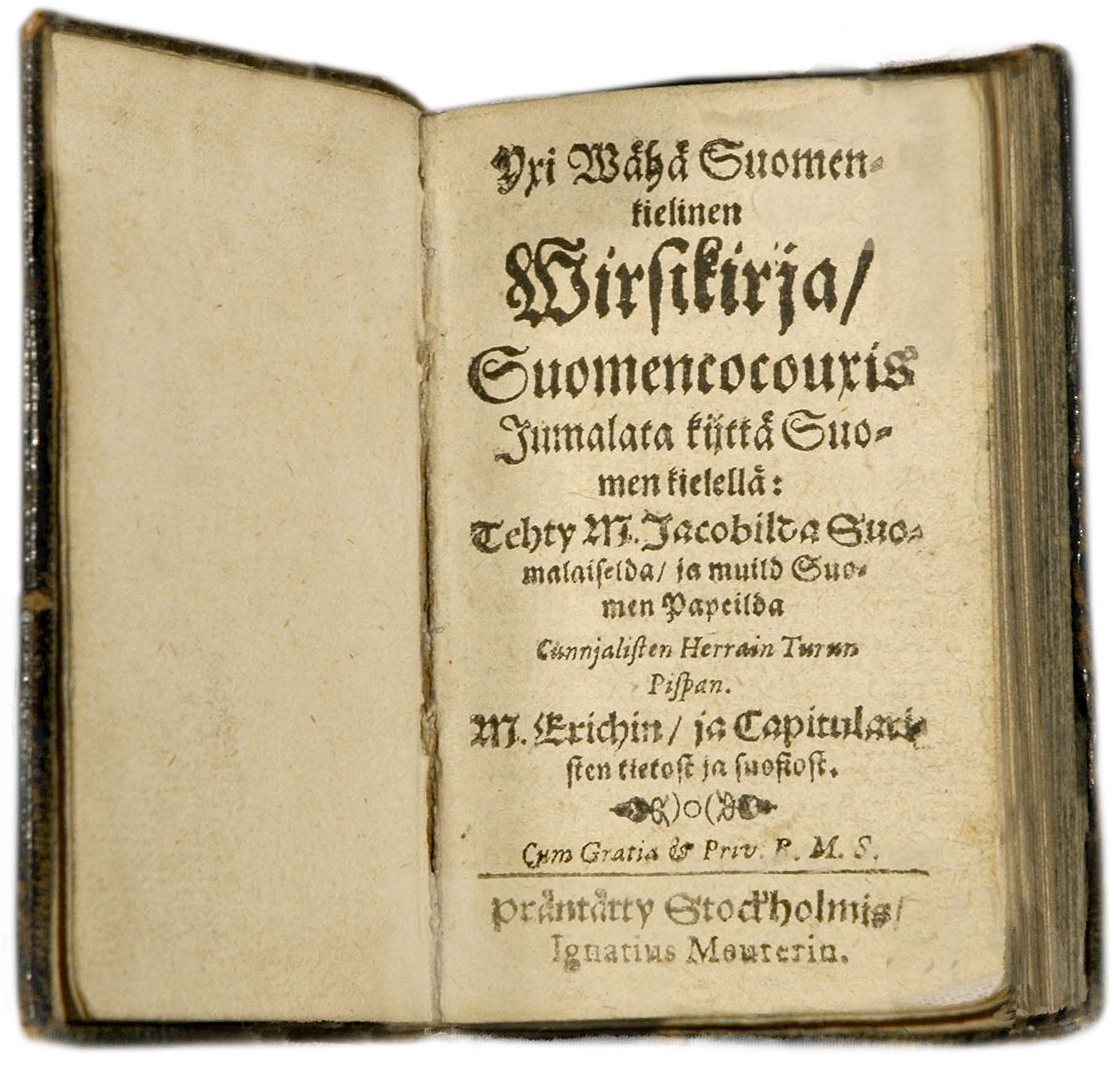 Finland's second psalmbook, Yxi Wähä Suomenkielinen Wirsikirja, was published by pastor Hemming in Masku in 1605.